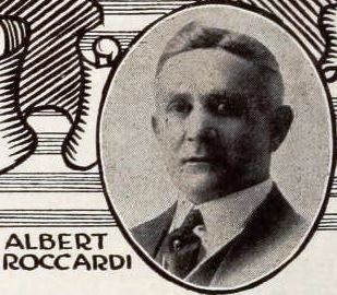 Italian actor Albert Roccardi, from an advertisement for films produced by Perry Pictures, on page 6 of the December 1, 1917 Exhibitors Herald.